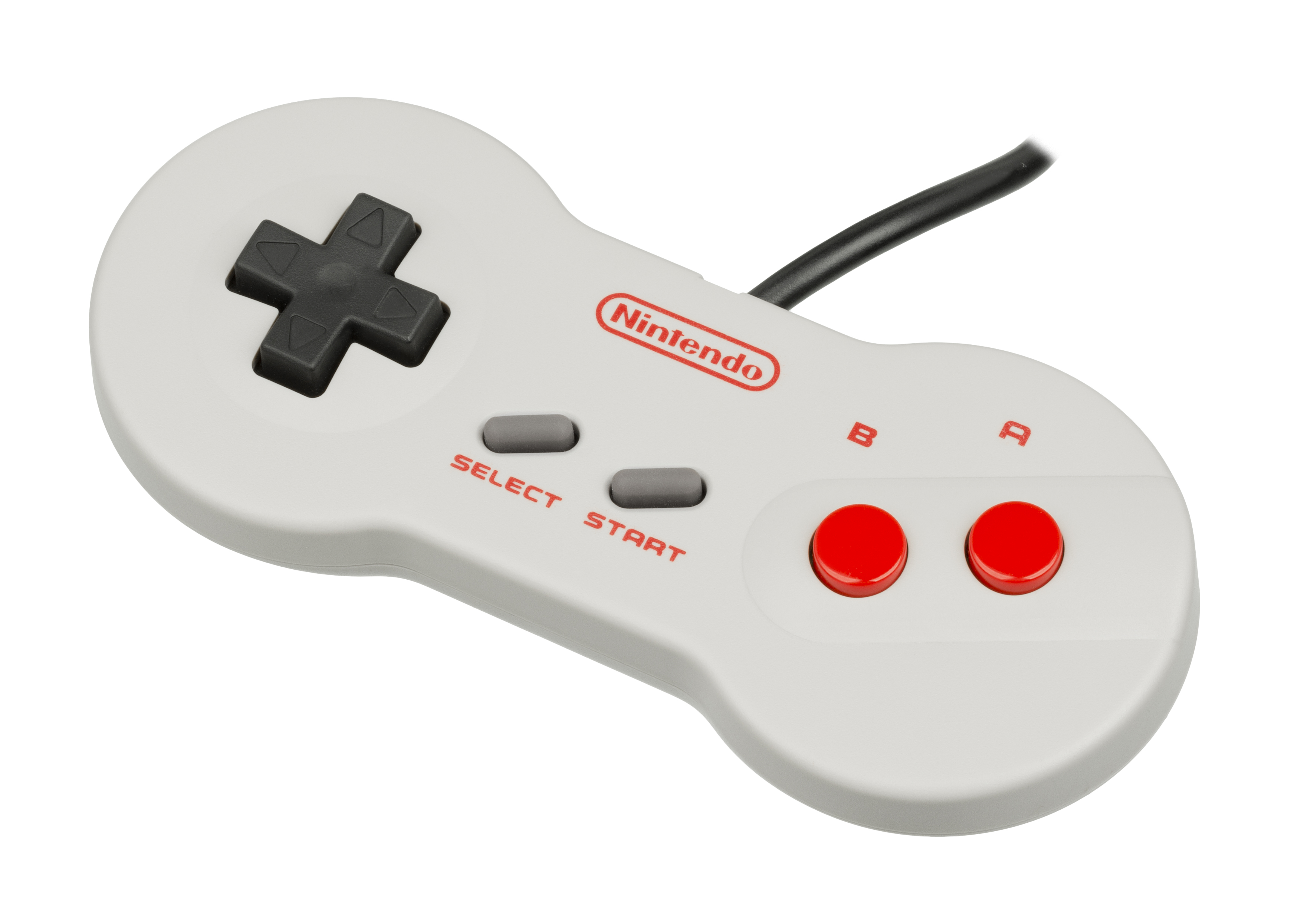 The controller for the revised Nintendo Famicom/NES "Top Loader", commonly called the "dog bone" controller.